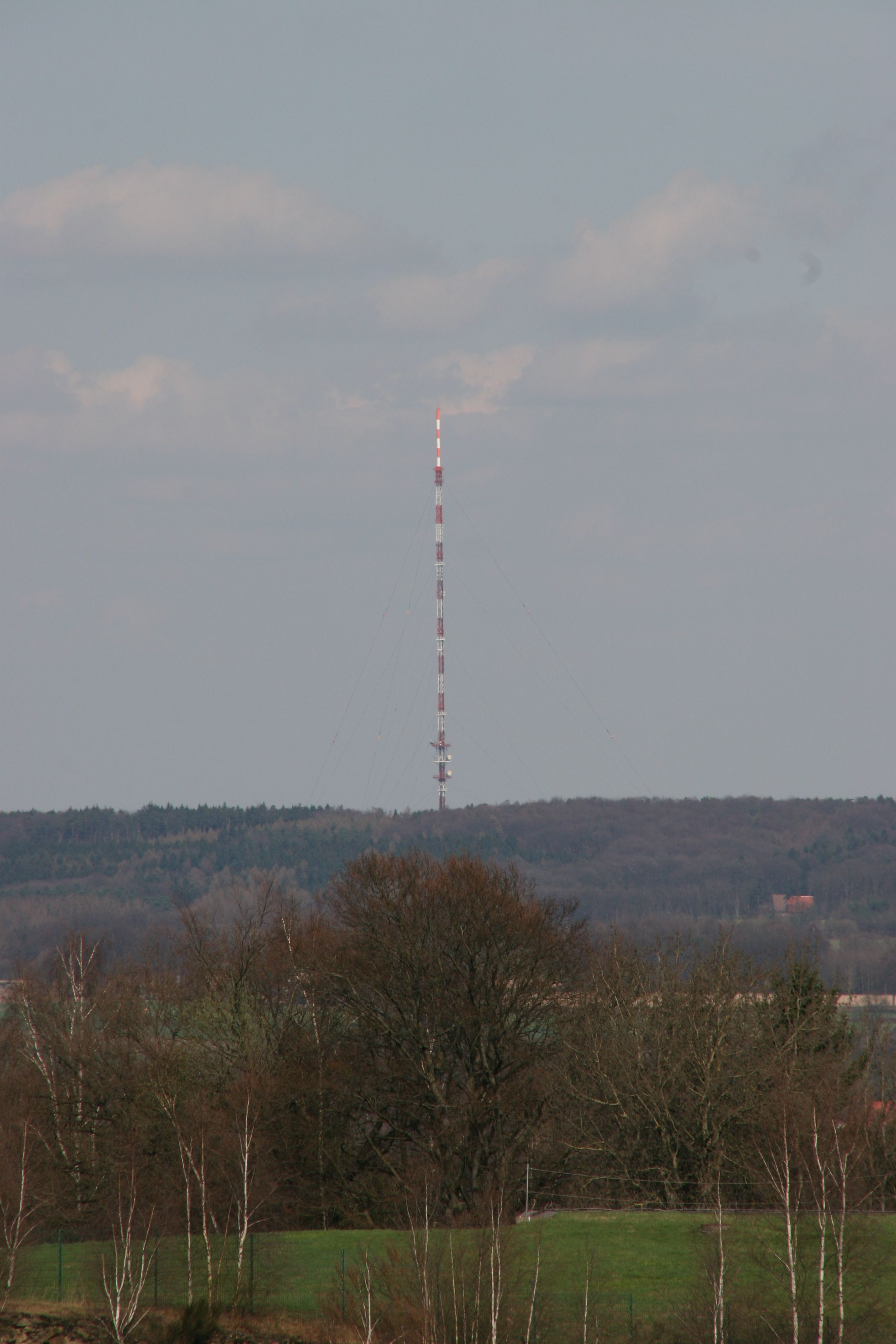 Bramsche: Telvision Tower Schleptruper Egge